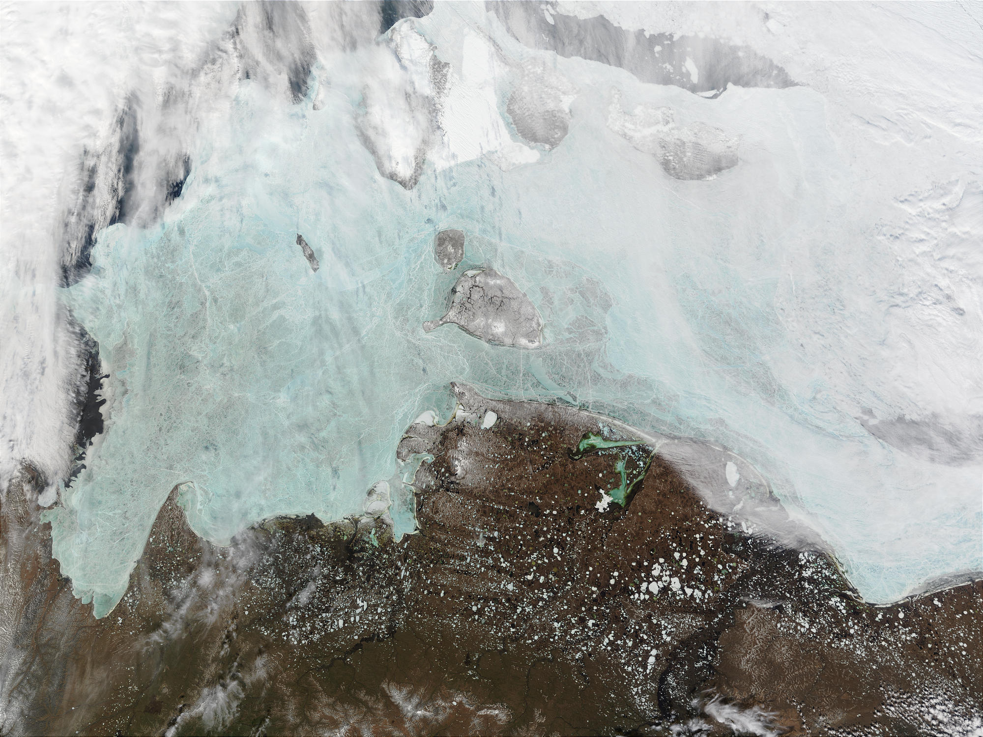 The winter sea ice in the Laptev Sea (on the left) and the East Siberian Sea (on the right) is looking a bit like a cracked windshield in these true-color Moderate Resolution Imaging Spectroradiometer (MODIS) images from June 16 and 23, 2002. North of the thawing tundra, the sea ice takes on its cracked, bright blue appearance as it thins, which allows the reflection of the water to show through. Numerous still-frozen lakes dot the tundra.